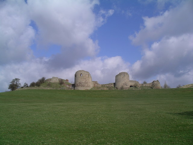 Chartley Castle is a 13th century stone motte and bailey fortress, which has been in ruins for a long time. Chartley Castle lies to the north of the village of Stowe-by-Chartley in Staffordshire, between Stafford and Uttoxeter (grid reference SK010285).